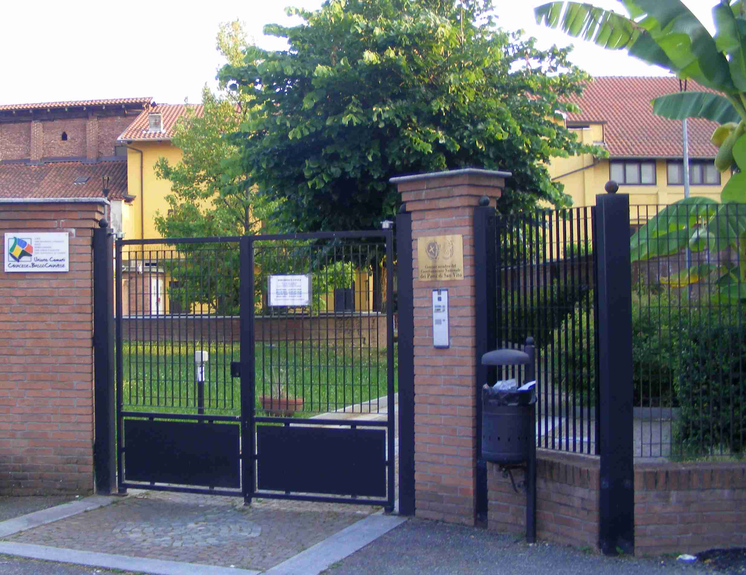 Nole (TO, Italy): town hall